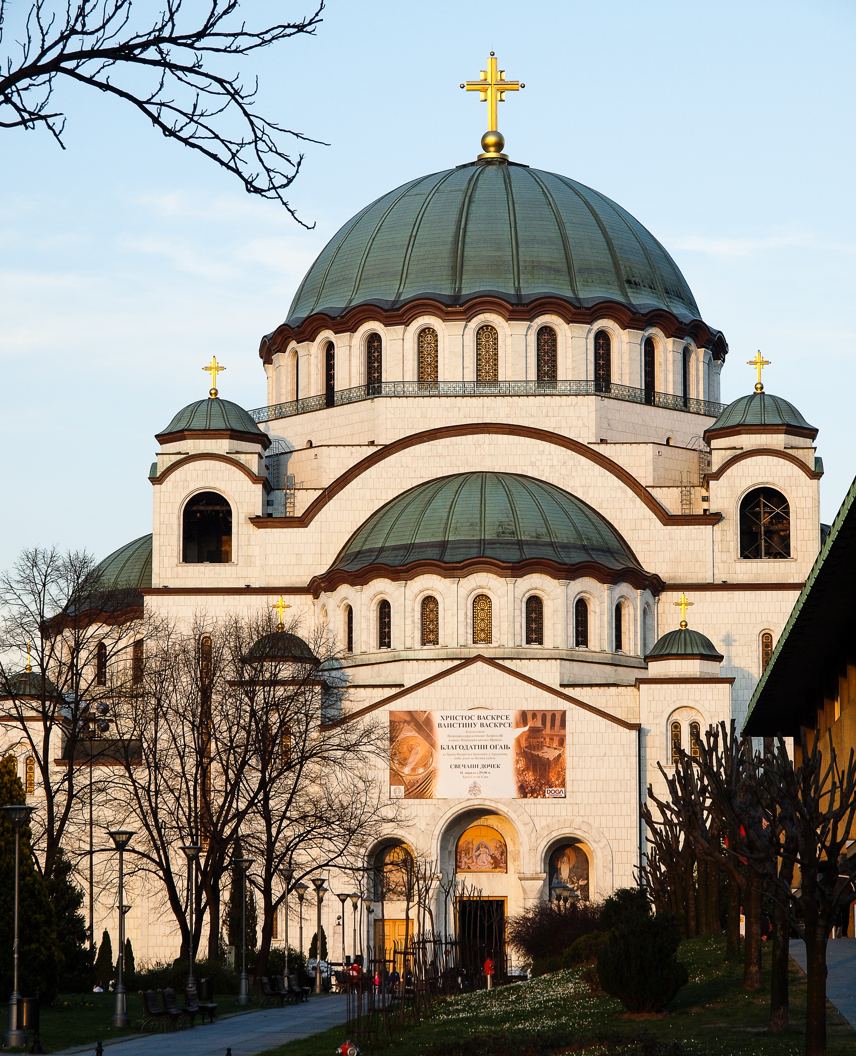 Sv Sava